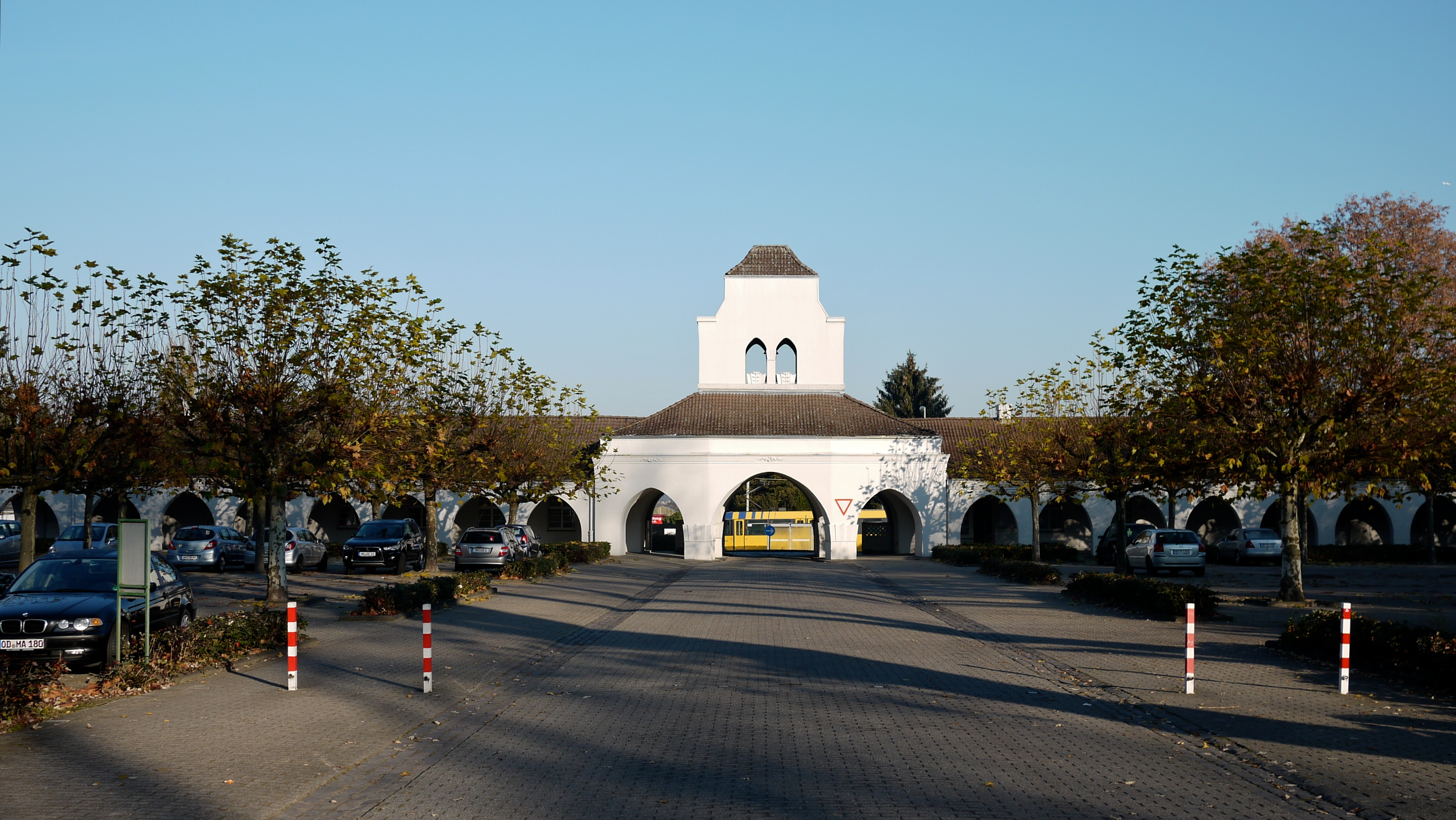 Haupttfriedhof in Mülheim an der Ruhr, Portal This is a photograph of an architectural monument.